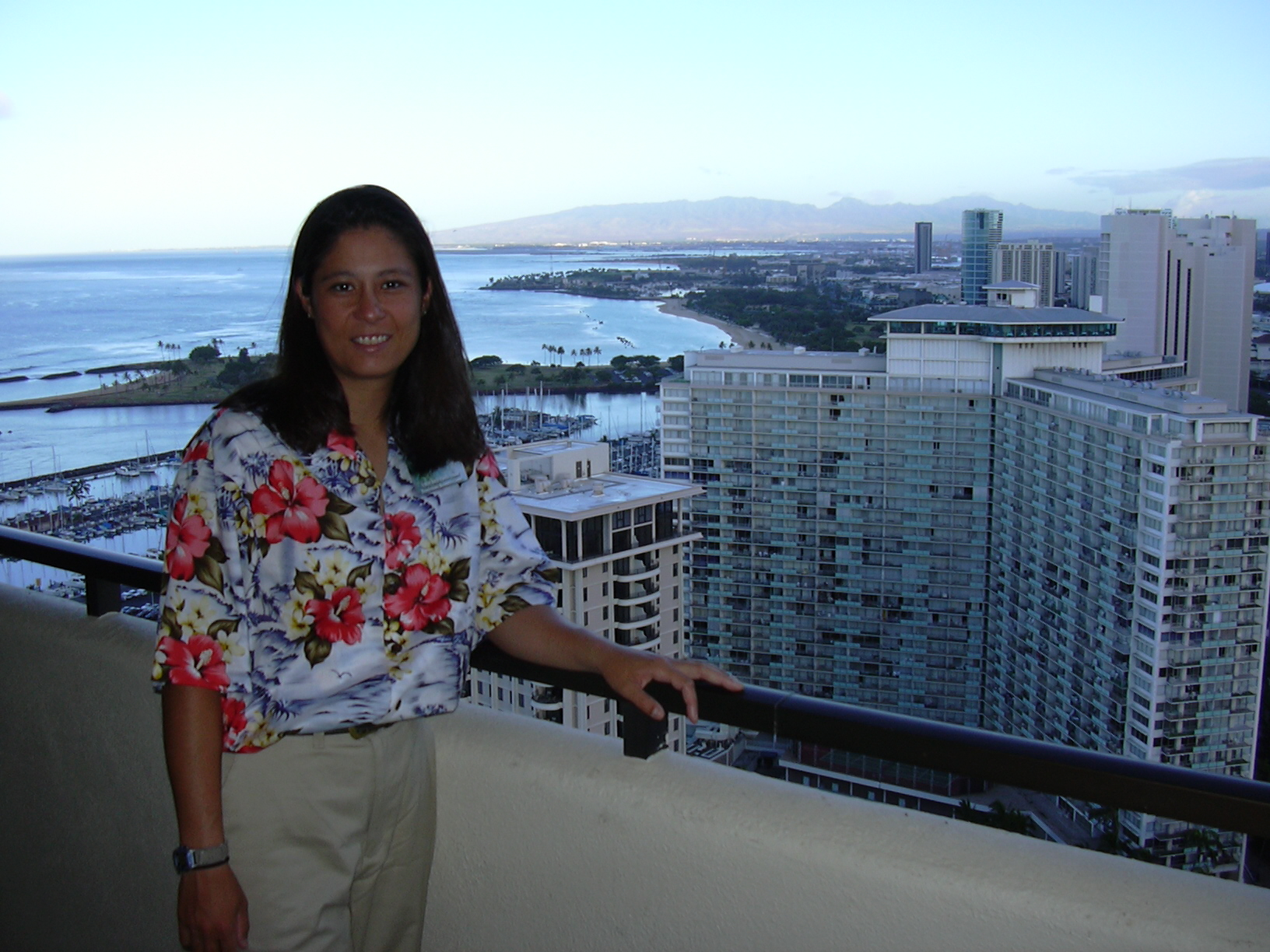 Cocos nucifera (view skyline with Kim). Location: Oahu, Honolulu